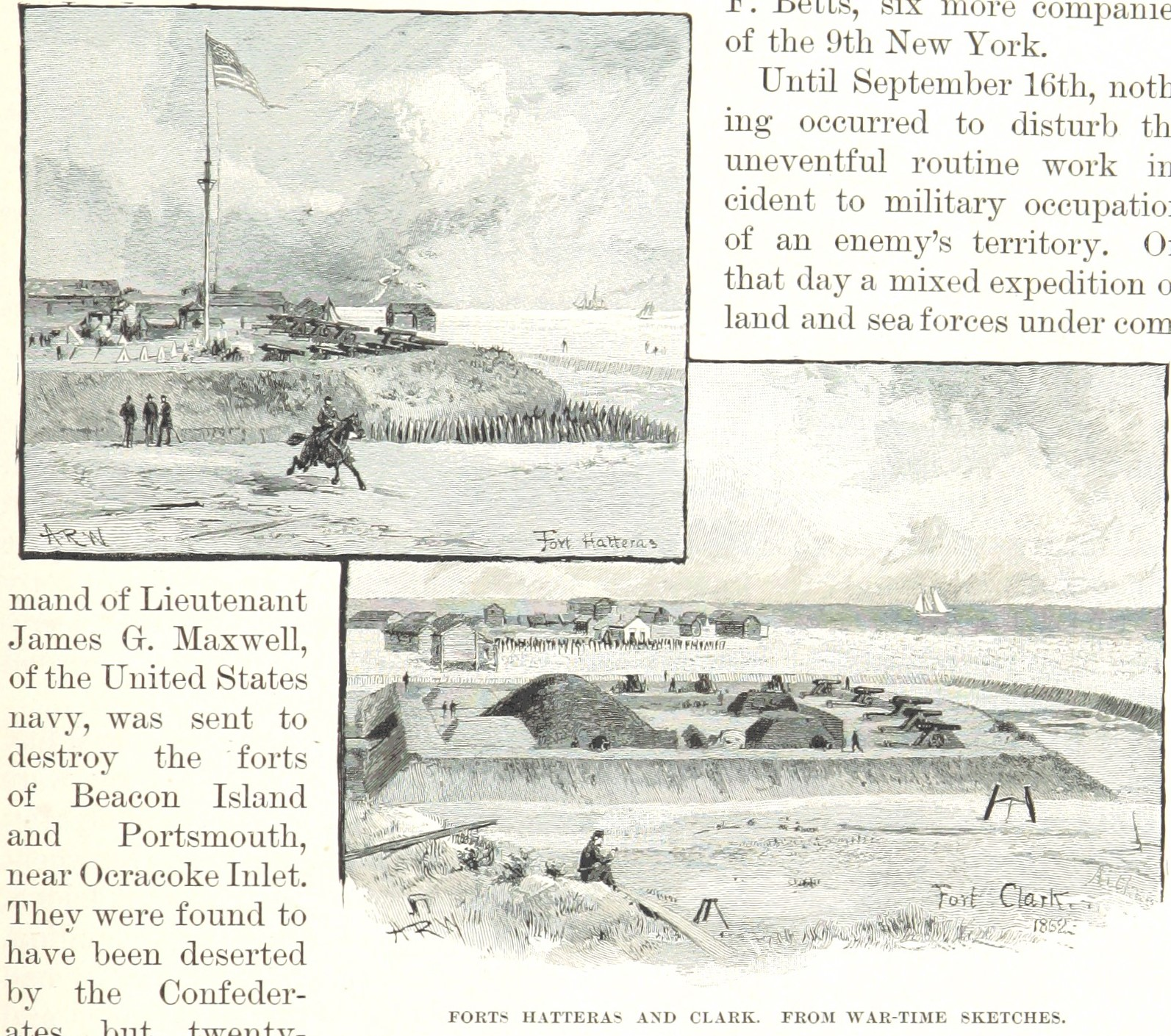 Fort Hatteras (top) and Fort Clark (bottom), the Confederate forts attacked during the Battle of Hatteras Inlet Batteries